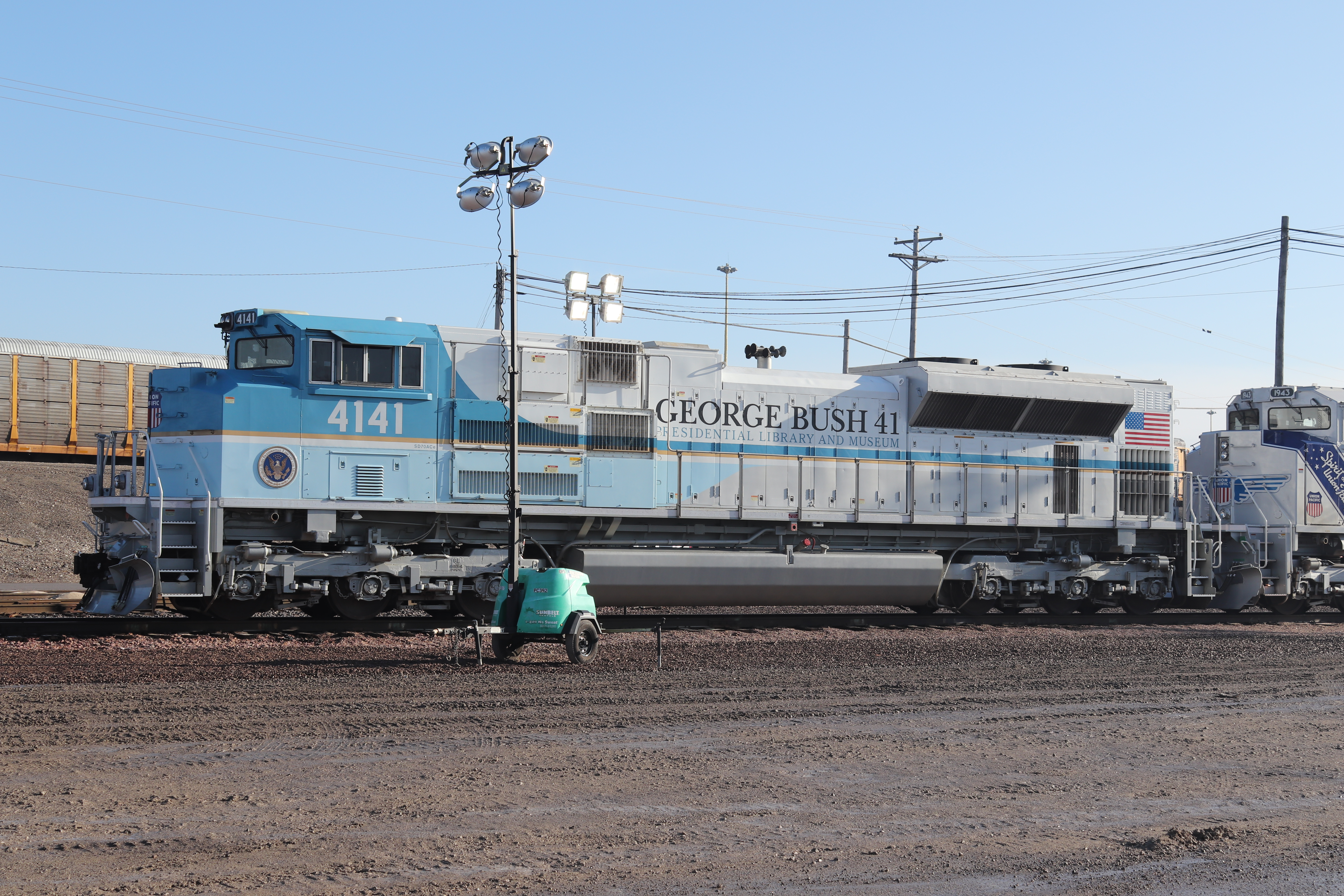 several other people were there to see it. it was quite the experience